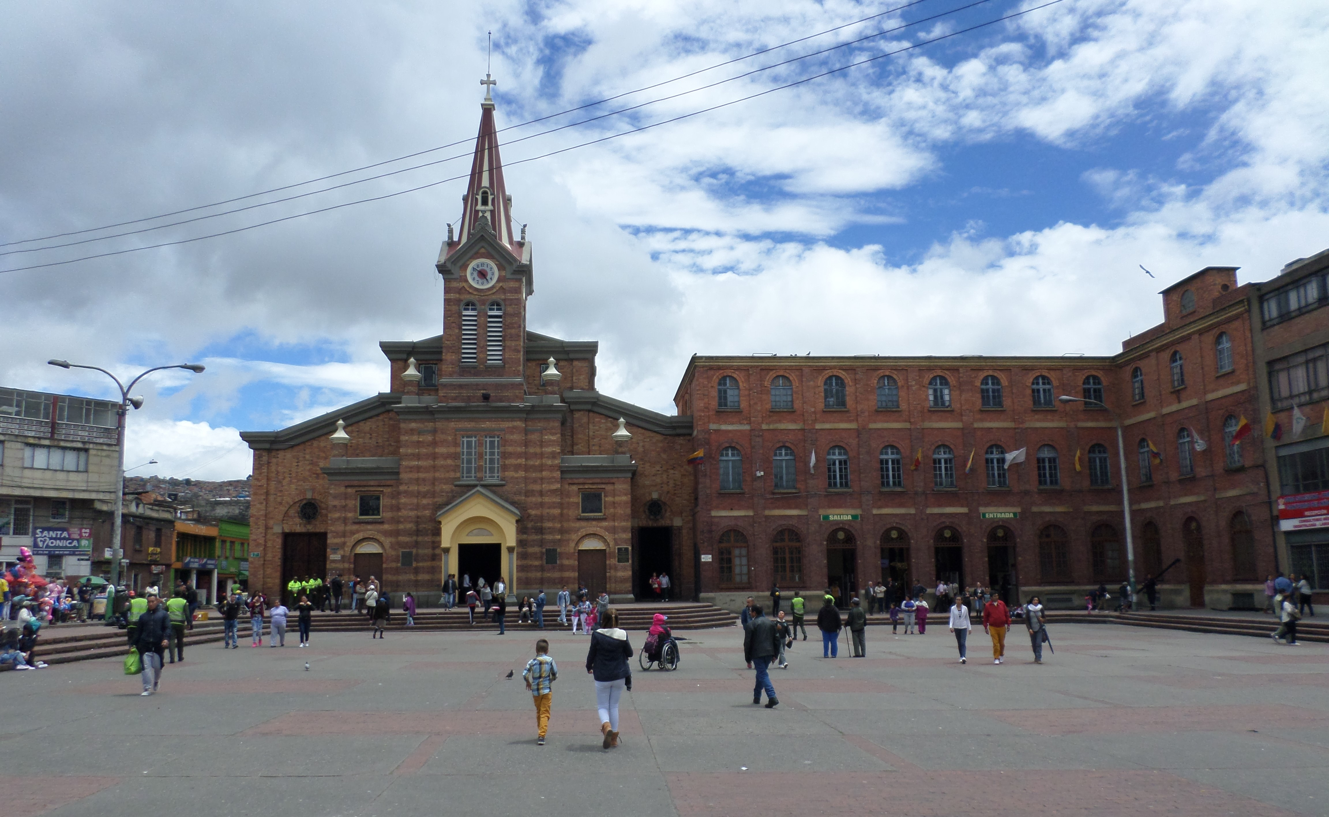 Parroquia del Divino Niño